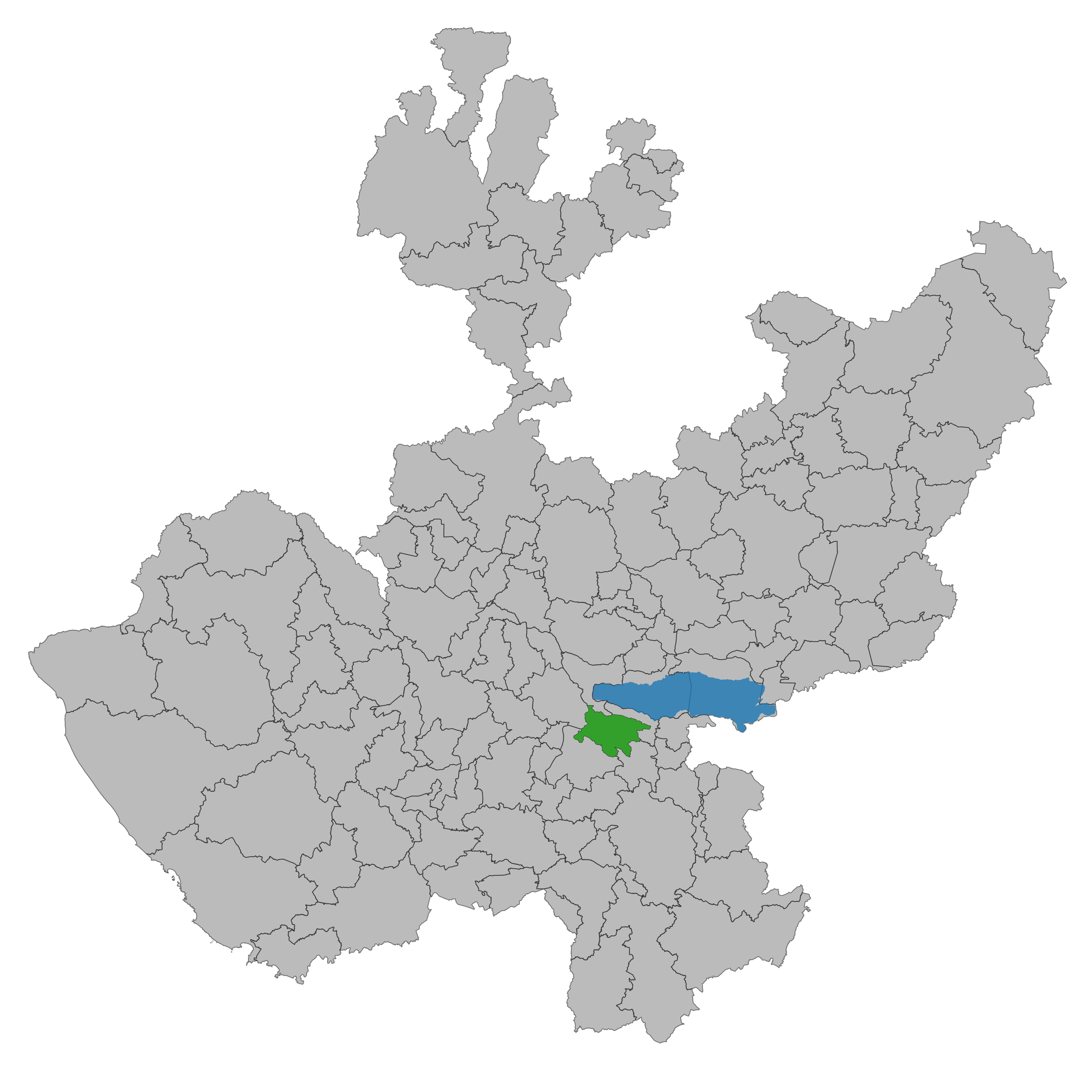 Municipality of Jalisco. Prepared with the software QGIS version 2.8.2 Wien & with information of SCINCE 2010 version 05/2013